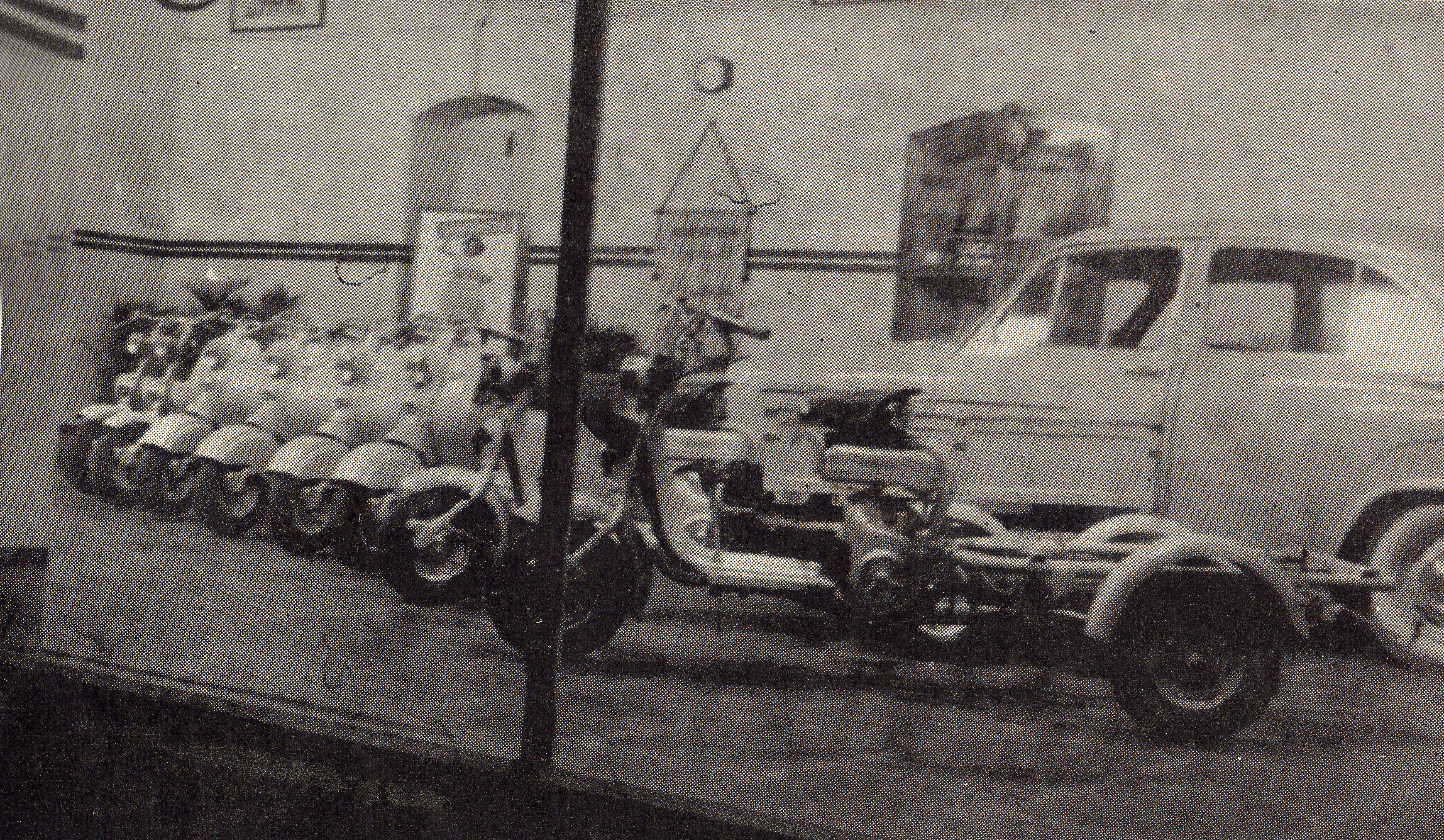 Commencement of Lambretta Scooters sale by Ghatge & Patil in 1956